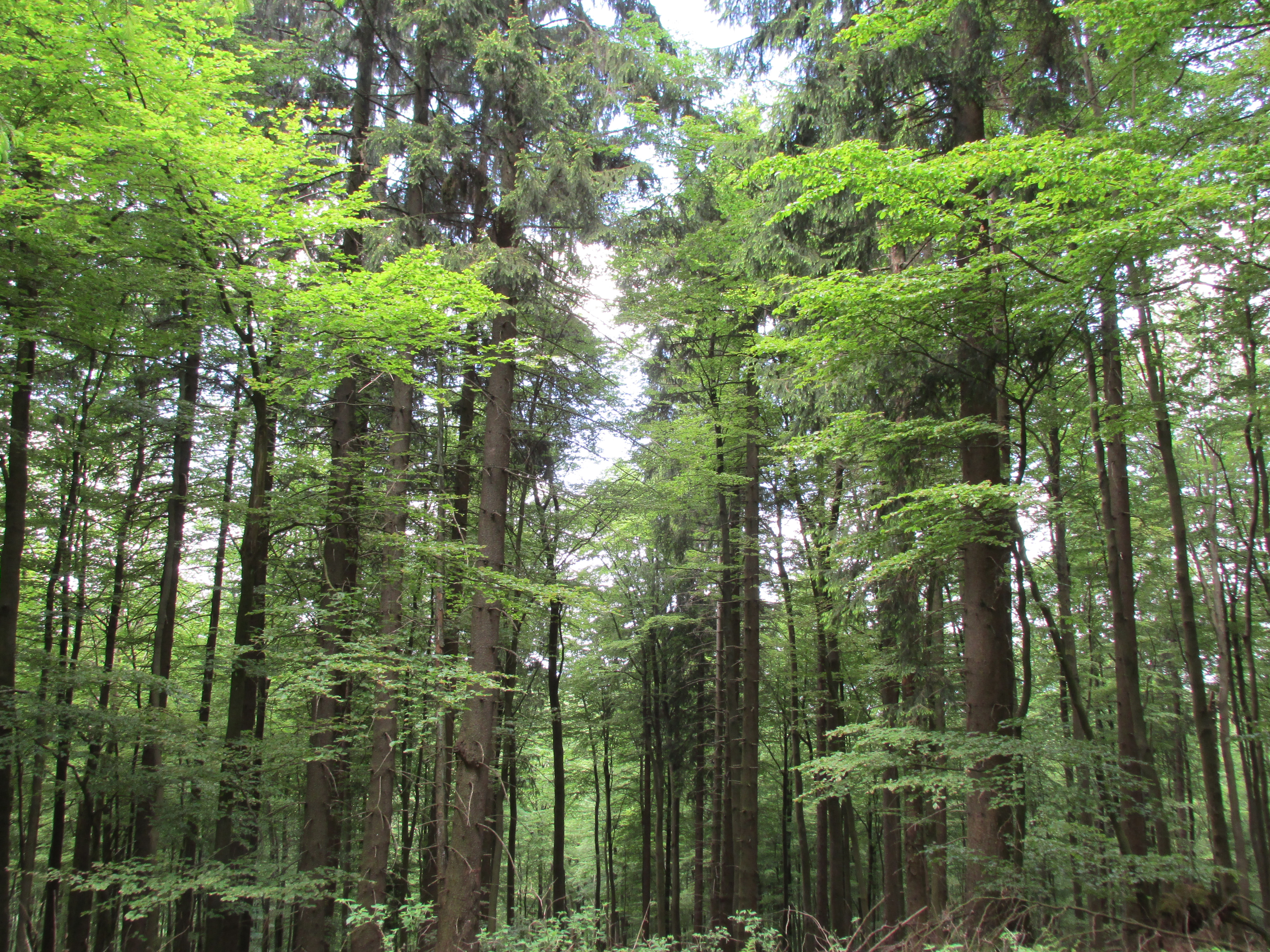 Nature reserve OE-002 Buchen- und Bruchwälder bei Einsiedelei und Apollmicke, Olpe, Germany check usage